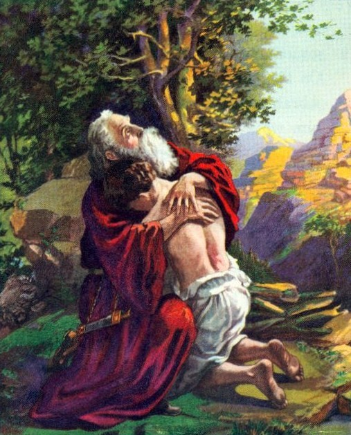 Abraham embraces his son Isaac after receiving him back from God